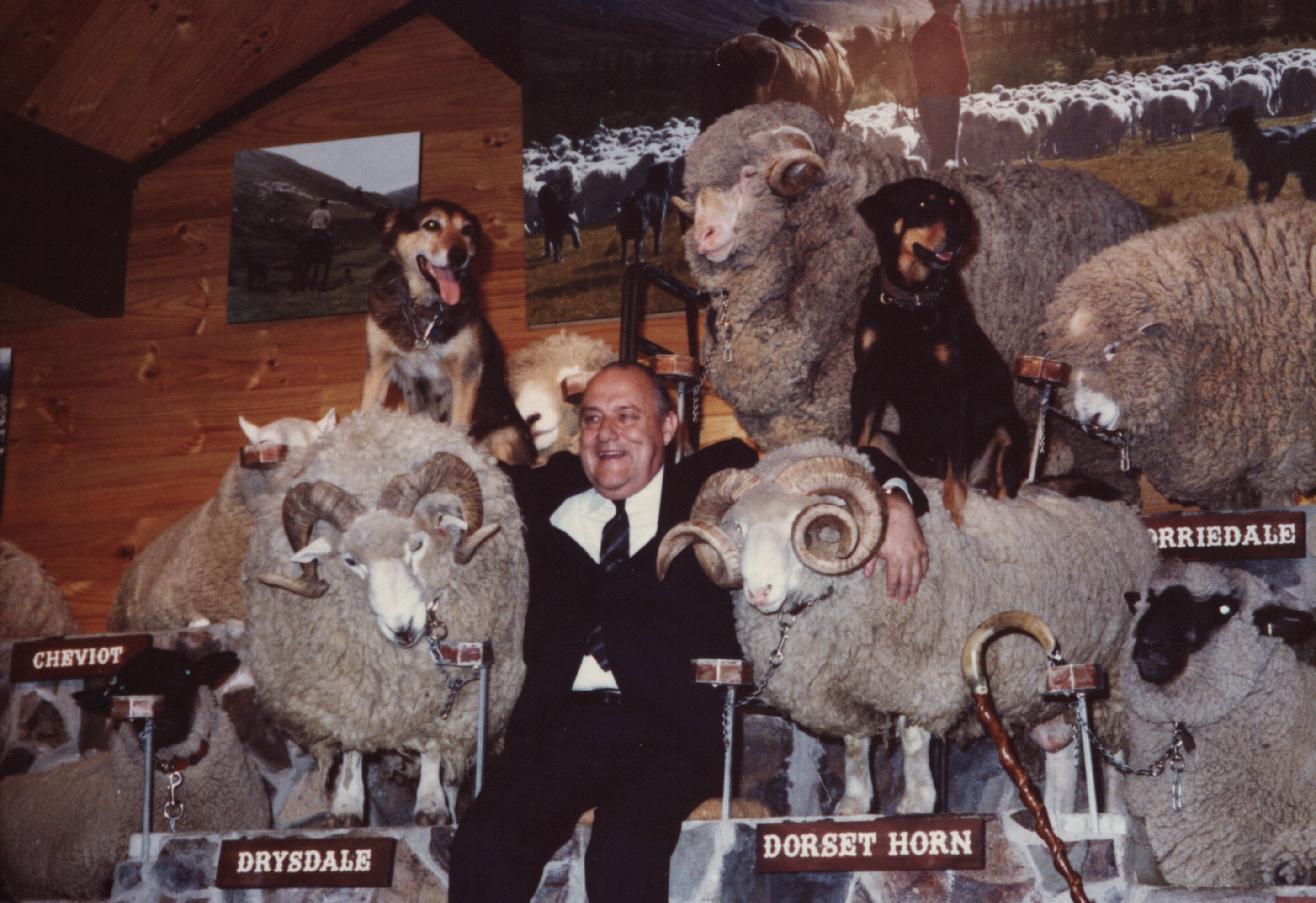 On November 22 1980, Prime Minister Robert Muldoon opened the new Rotorua Agrodome. The original agrodome in Rotorua was opened in 1971 by champion shearer Godfrey Bowen and fellow farmer George Harford. In May 1980 a fire destroyed the original agrodome. However, the site did not remain closed for long as was rebuilt and reopened in November 1980. The agrodome remains open today and is a popular tourist attraction. The image shown here is from the personal papers of the late Sir Robert Muldoon who was Prime Minister of New Zealand from 1975 to 1984. This photo, along with photograph albums presented to Robert Muldoon to commemorate official visits and engagements and official and personal correspondence were donated to Archives New Zealand by the late Lady Thea Muldoon, wife of the late Robert Muldoon. Other items of interest in this series of records include: photographs of Muldoon and US President Ronald Reagan; Queen Elizabeth II on the opening of the Beehive in Wellington and a letter of thanks from the Duke of Edinburgh. Archives New Zealand reference: R23223859 AAXO 8029 W4742 25 / 180